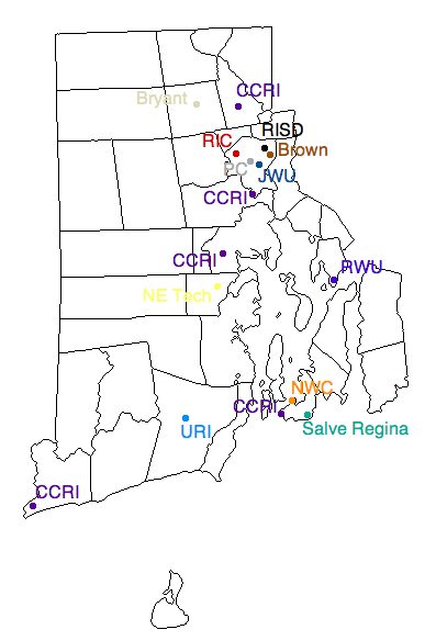 dot map showing the RI colleges